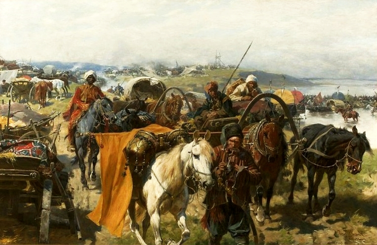 Camp of the Zaporizhian Cossacks, probably set in the late 16th or early 17th century.